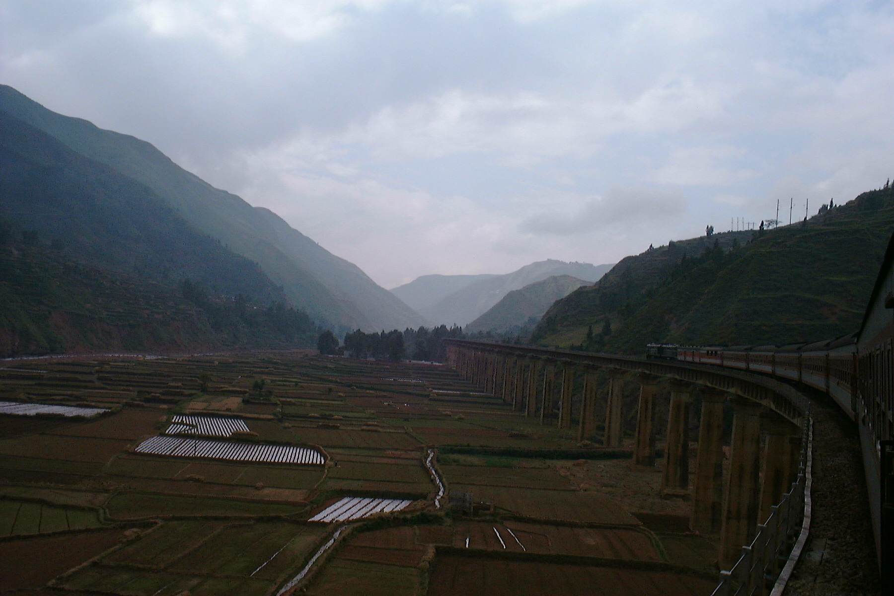 Chengdu-Kunming Railway in Longgudian, Yunnan